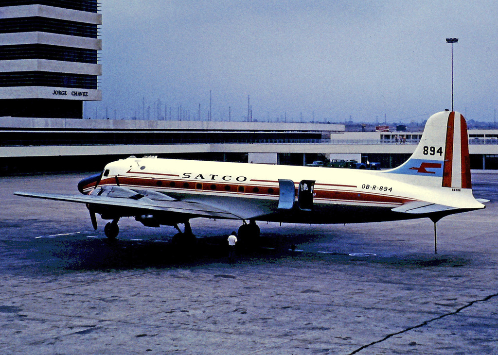 Douglas C-54G (DC-4) of SATCO Peru at Lima Airport in 1972